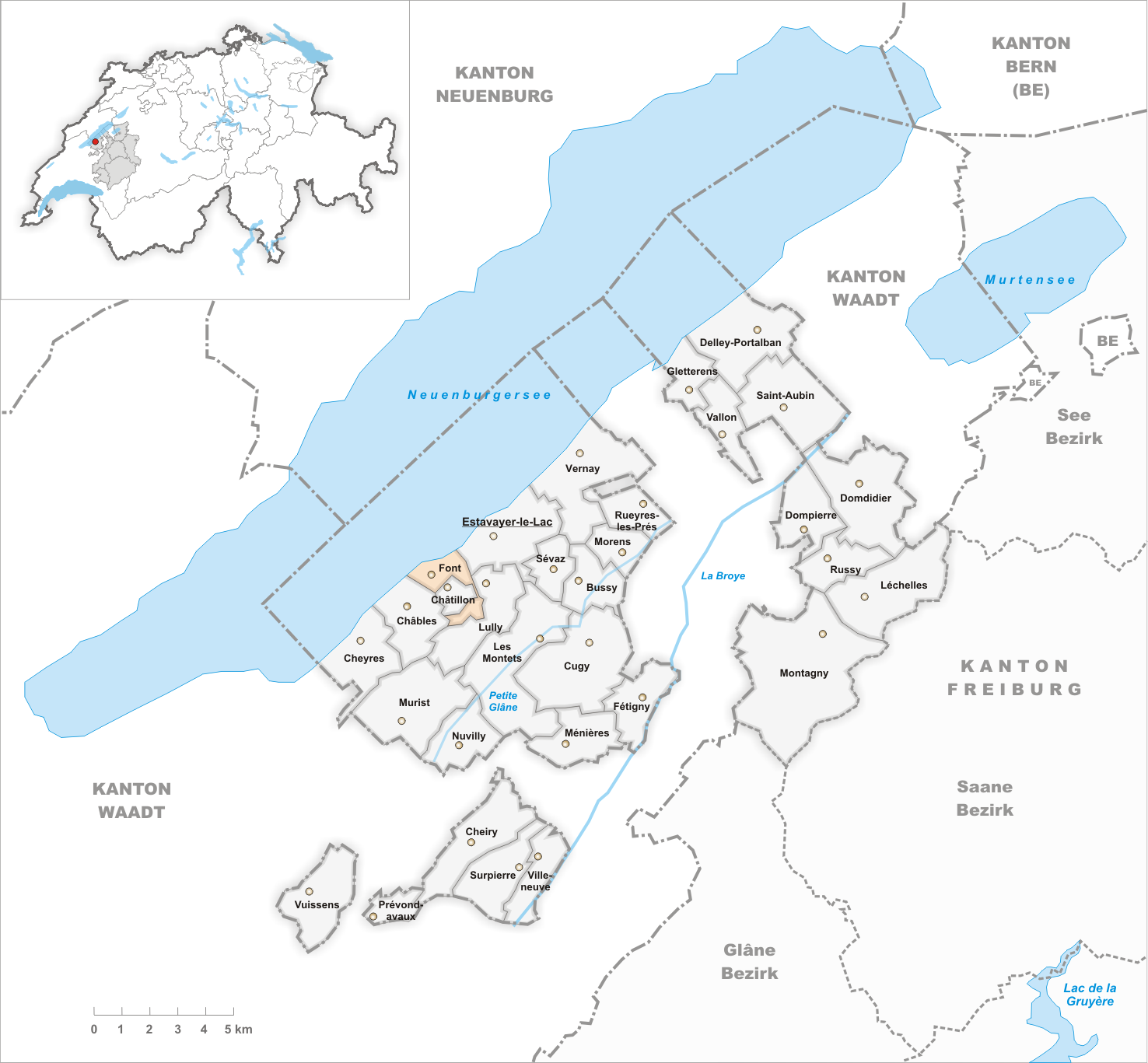 Municipality Font